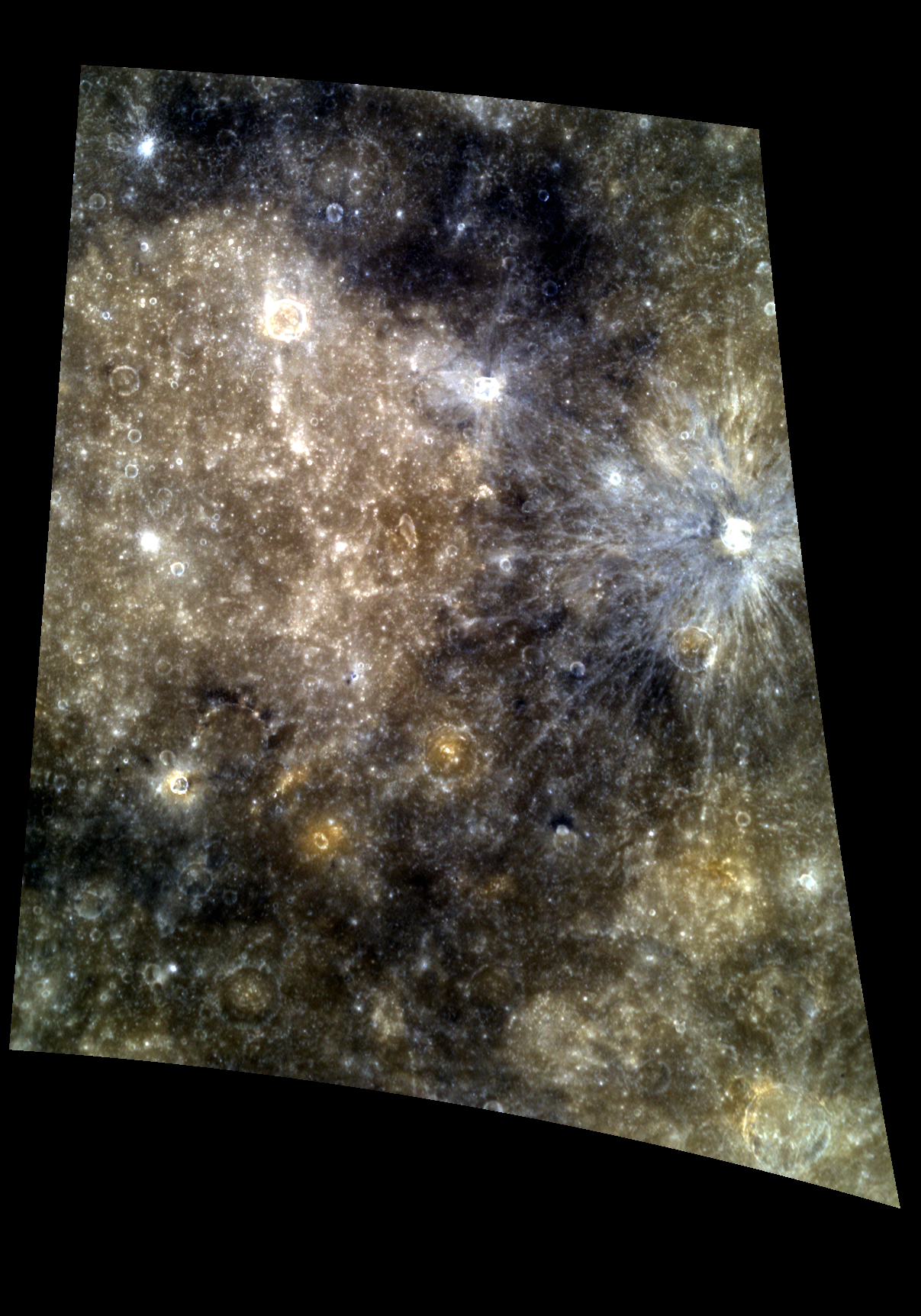 Date acquired: April 29, 2013 Image Mission Elapsed Time (MET): 9578636, 9578628, 9578624 Image ID: 3974705, 3974703, 3974702 Instrument: Wide Angle Camera (WAC) of the Mercury Dual Imaging System (MDIS) WAC filters: 9, 7, 6 (996, 748, 433 nanometers) in red, green, and blue Center Latitude: -16.28° Center Longitude: 198.4° E Resolution: 436 meters/pixel Scale: The inner ring of Tolstoj is 365 km (~226.8 mi) Incidence Angle: 18.1° Emission Angle: 44.9° Phase Angle: 28.0° Of Interest: This color image highlights Tolstoj basin's light interior and darker, low reflectance material (LRM) filled surroundings. The LRM in this region stands out in contrast to the smooth plains within Tolstoj and the bright rays of the young crater on the right. This image was acquired as a targeted high-resolution 11-color image set. Acquiring 11-color targets is a new campaign that began in March 2013 and that utilizes all of the WAC's 11 narrow-band color filters. Because of the large data volume involved, only features of special scientific interest are targeted for imaging in all 11 colors. The crater with prominent rays at right lies on the south rim of Rublev crater. Eitoku crater is within view at lower right but hard to distinguish by color in this image.